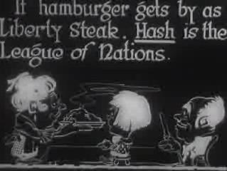 Cartoon making reference to the renaming of "hamburger" as "Liberty steak" during the Great War. Still from "So They Tell Me", silent cartoon film by U.S. cartoonist Warren H. Brown making commentary on current events, released in 1919.